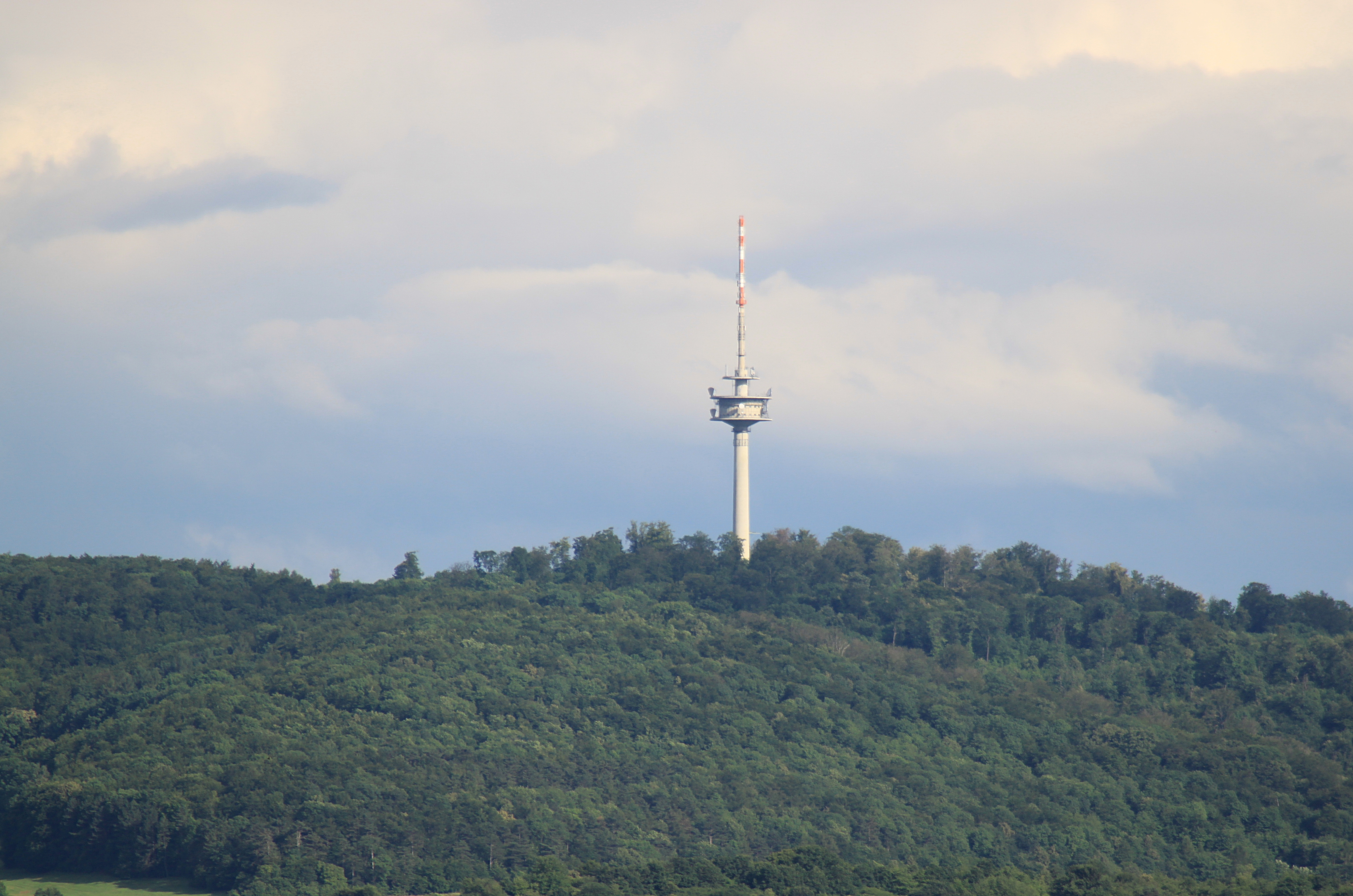 Communication tower Bovenden (Göttingen) seen from the Leine valley. The tower (height: 155 m) is located on the Osterberg, above the small town and 350 meters over sea level.